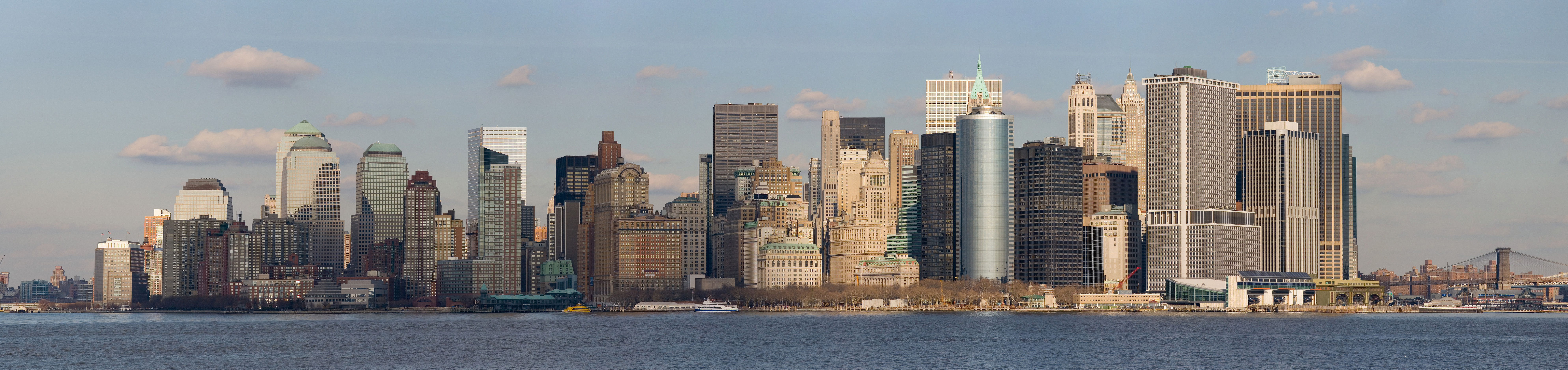 A panorama of Lower Manhattan as viewed from the Staten Island Ferry. This is a composite of 12 segments stitched together. It was taken by myself with a Canon 5D and 70-200mm f/2.8L lens at 200mm and f/8.